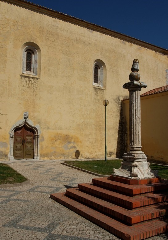 Pillory in the parish of Moura